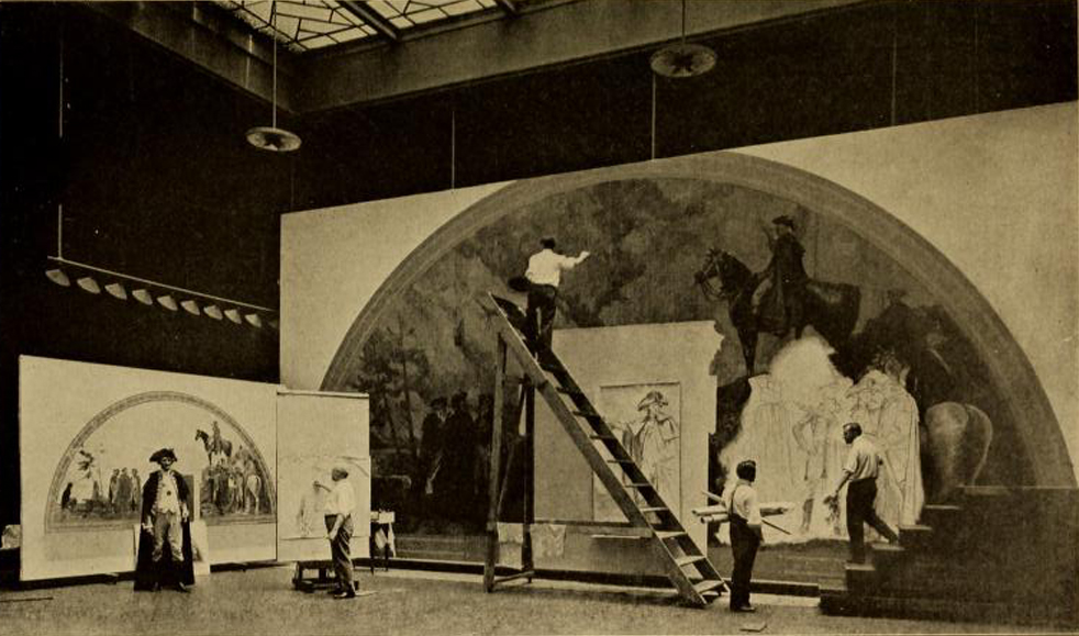 Charles Yardley Turner and assistants at work on the "Washington at Fort Lee" mural, circa 1910.